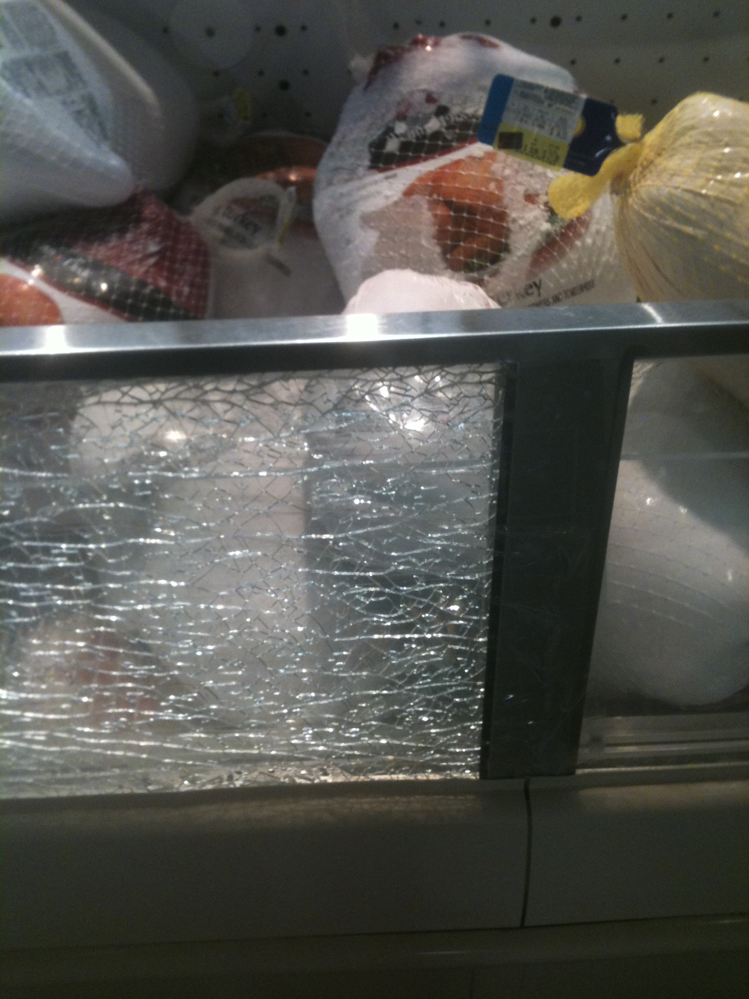 Meat case filled with frozen turkeys with a broken tempered glass window. Picture taken from a Winn-Dixie supermarket.